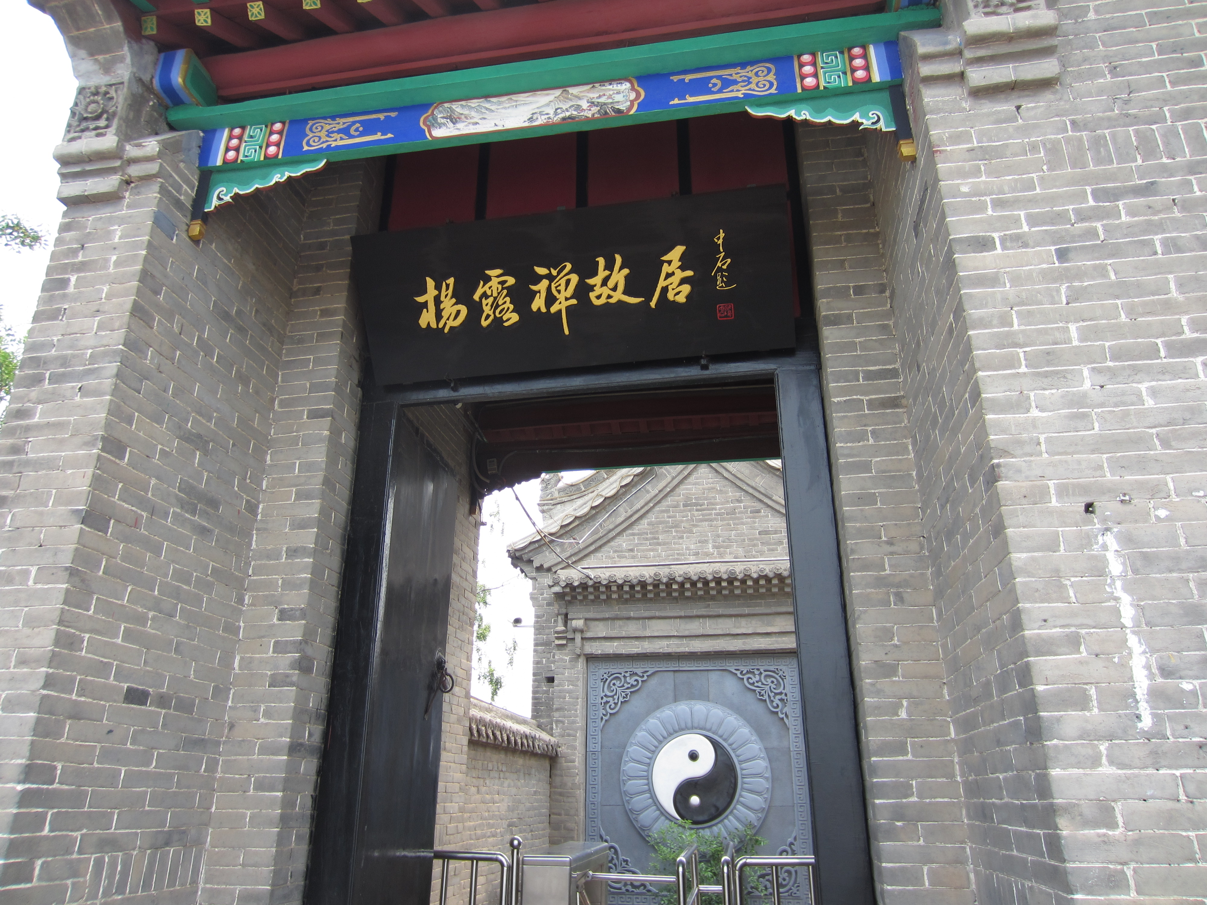 The former residence of Yang Luchan in Yongnian County。